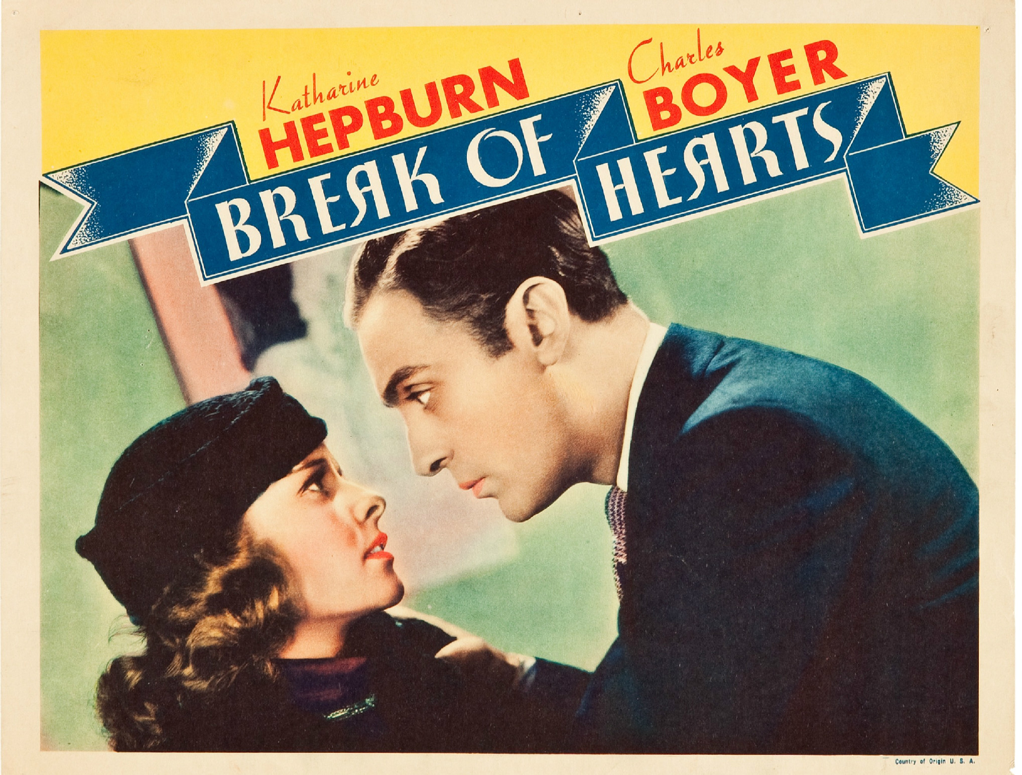 Lobby card for the American film Break of Hearts (1935).